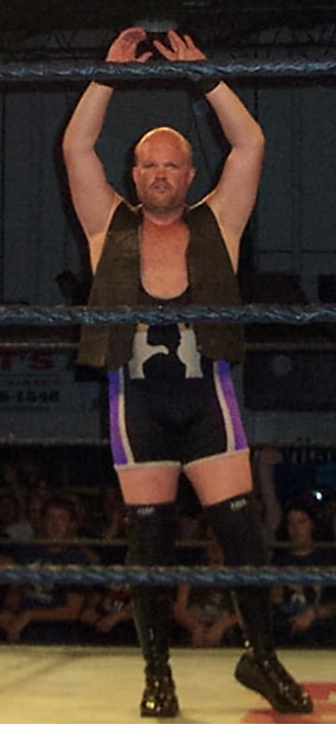 CW Anderson, June 2006 at the ECW Arena. I took the pic.